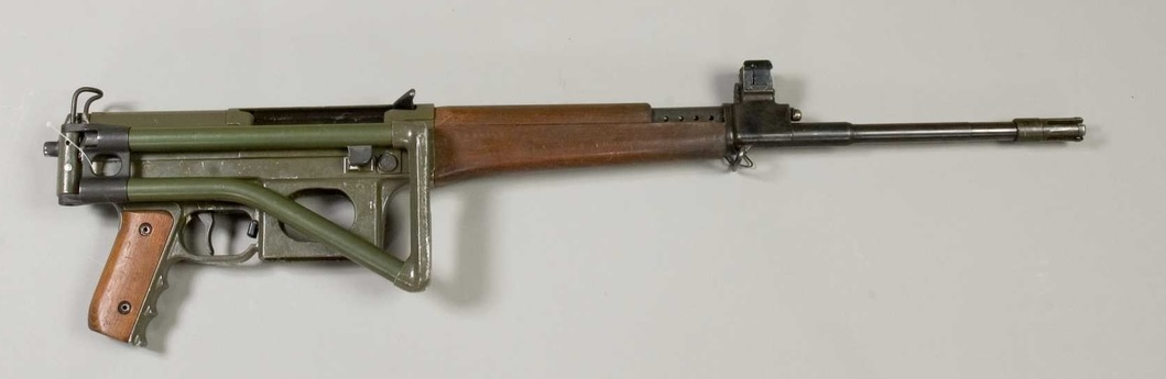 GRAM 61 cal 7,62 mm 1961 203. A prototype battle rifle that was in trials to replace the Ljungman Ag m/42 semi-automatic rifle in Swedish Army service and was manufactured by the Carl Gustav corporation.